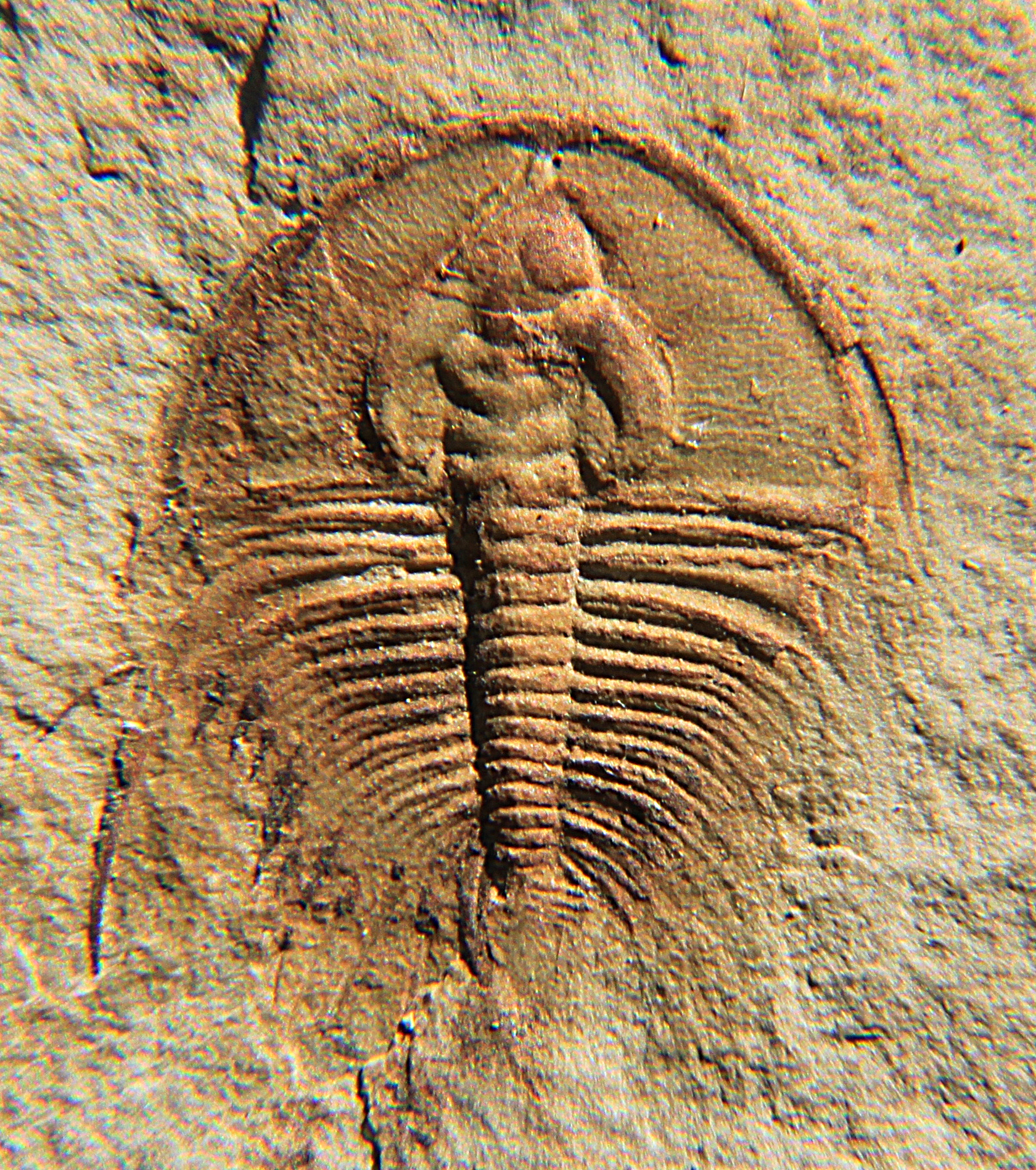 An Olenellus fowleri trilobite, Order Redlichiida, Family Olenellidae, 15mm along the axis, collected from the Pioche Shale, Lincoln County, Nevada, USA, from the late Lower Cambrian (Toyonian); well-developed opisthothorax, that is characteristic for the species is missing, but well recognisable by the pleural spines that, except for the macropleural spine on segment 3, become longer further tailward and are relatively long, giving the species a spidery look